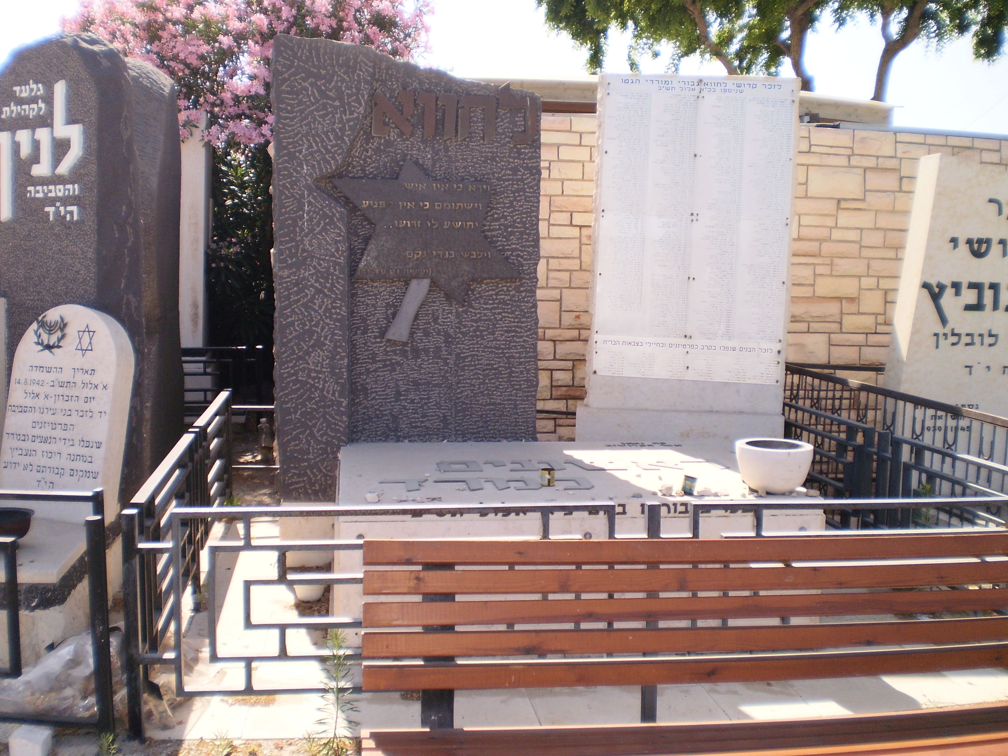 Łachwa memorial at Holon Cemetery